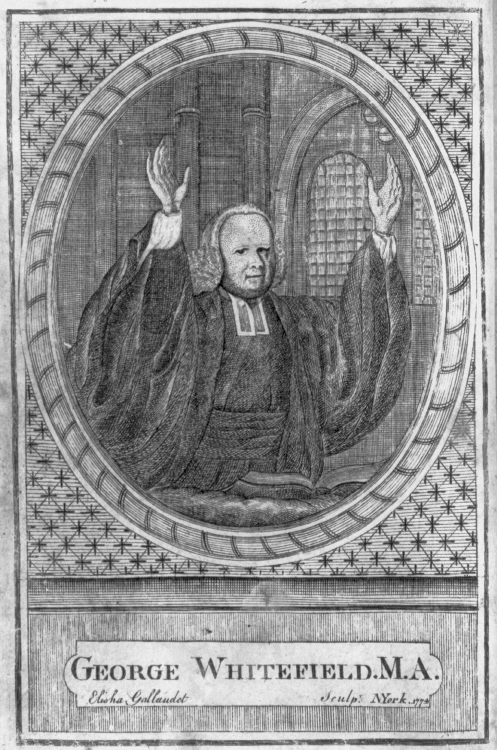 George Whitefield, half-length portrait with hands raised, preaching in a church; portrait framed by oval.